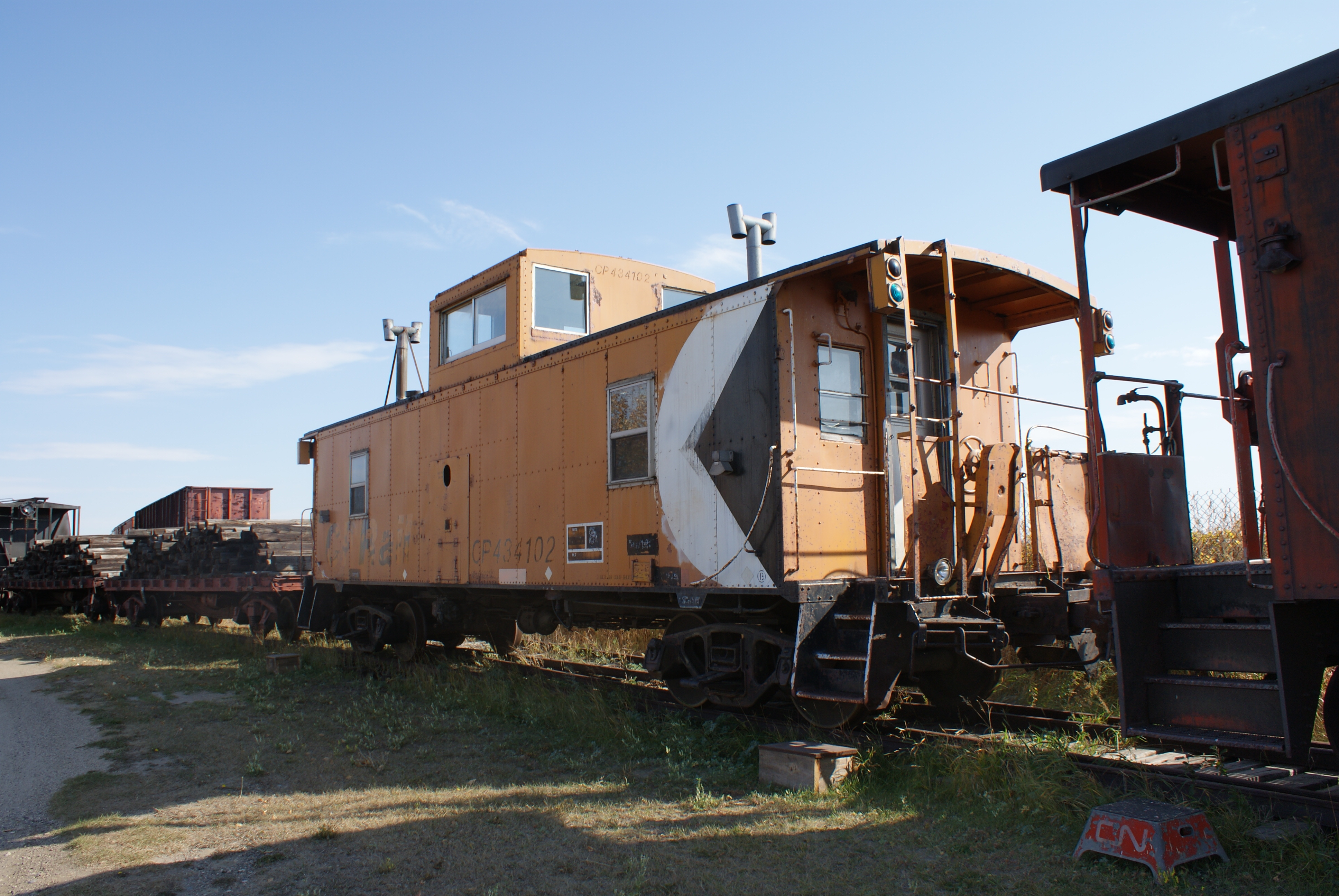 CPR caboose #434044 at the Saskatchewan Railway Museum